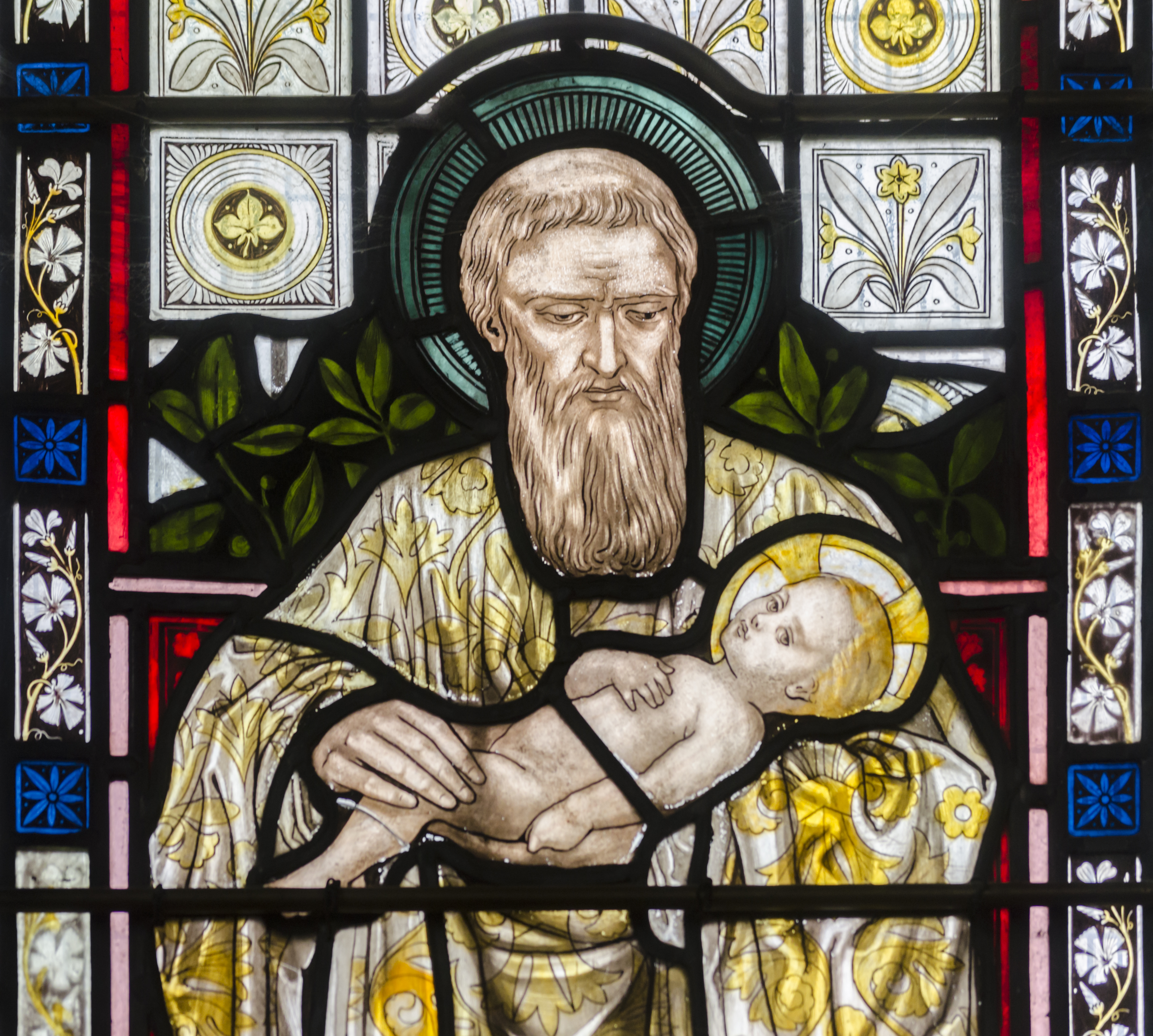 From Nunc Dimittis window, by James Powell & sons, 1875, designed by H. Holiday.